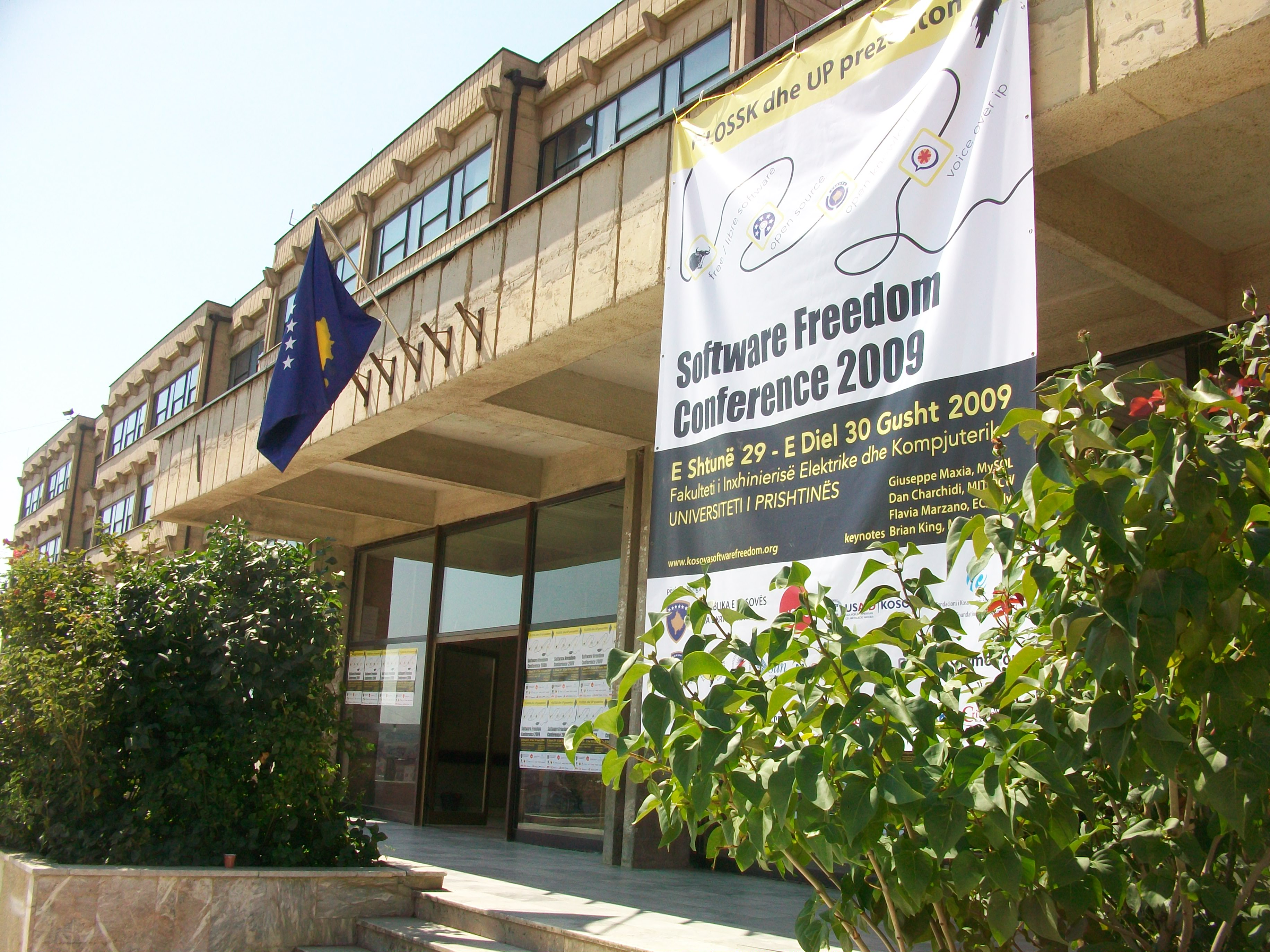 Pictures from Prizren Kosovo